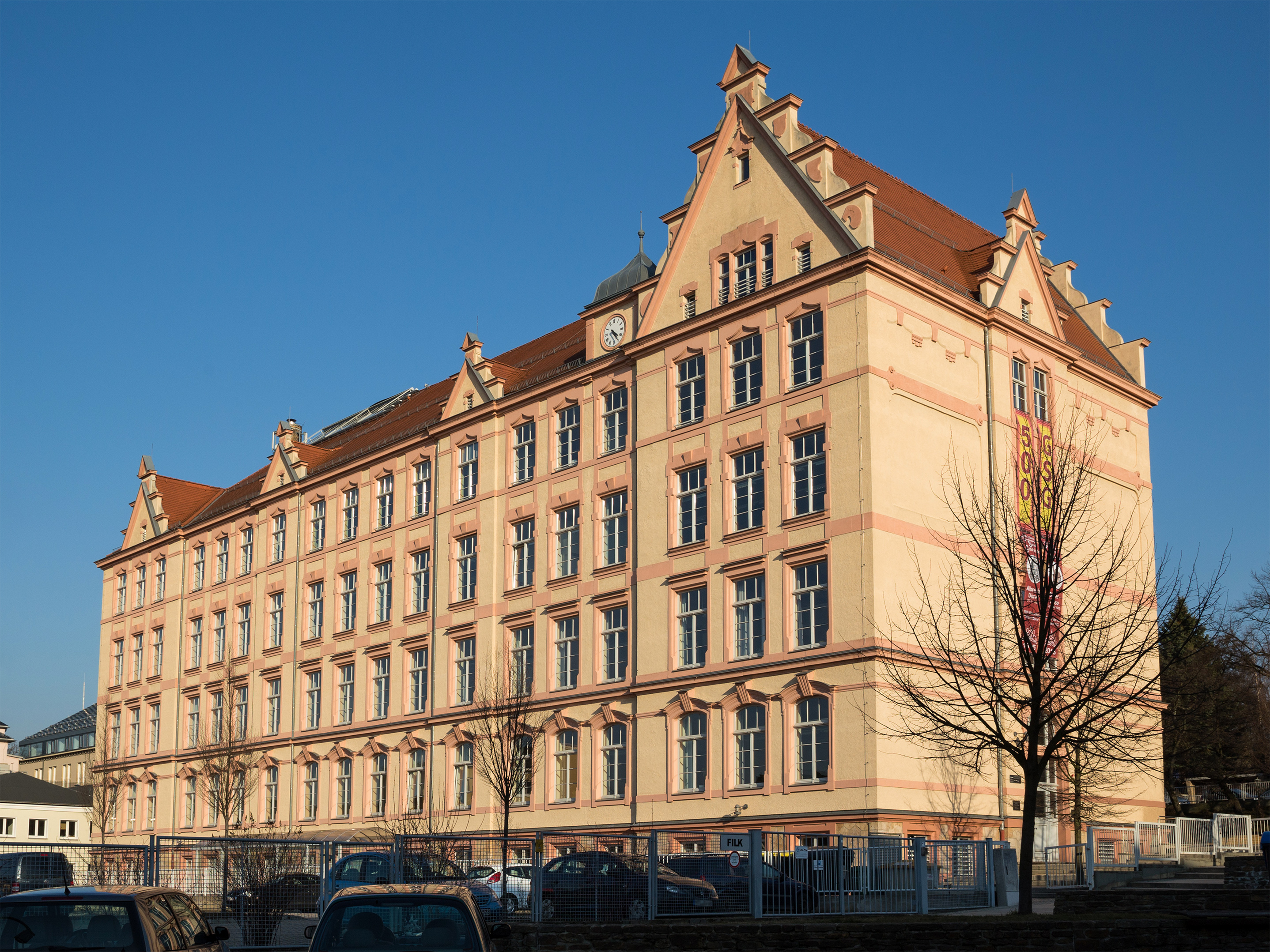 Freiberg, Saxony, Geschwister-Scholl-Gymnasium, House "Dürer", Pfarrgasse 44